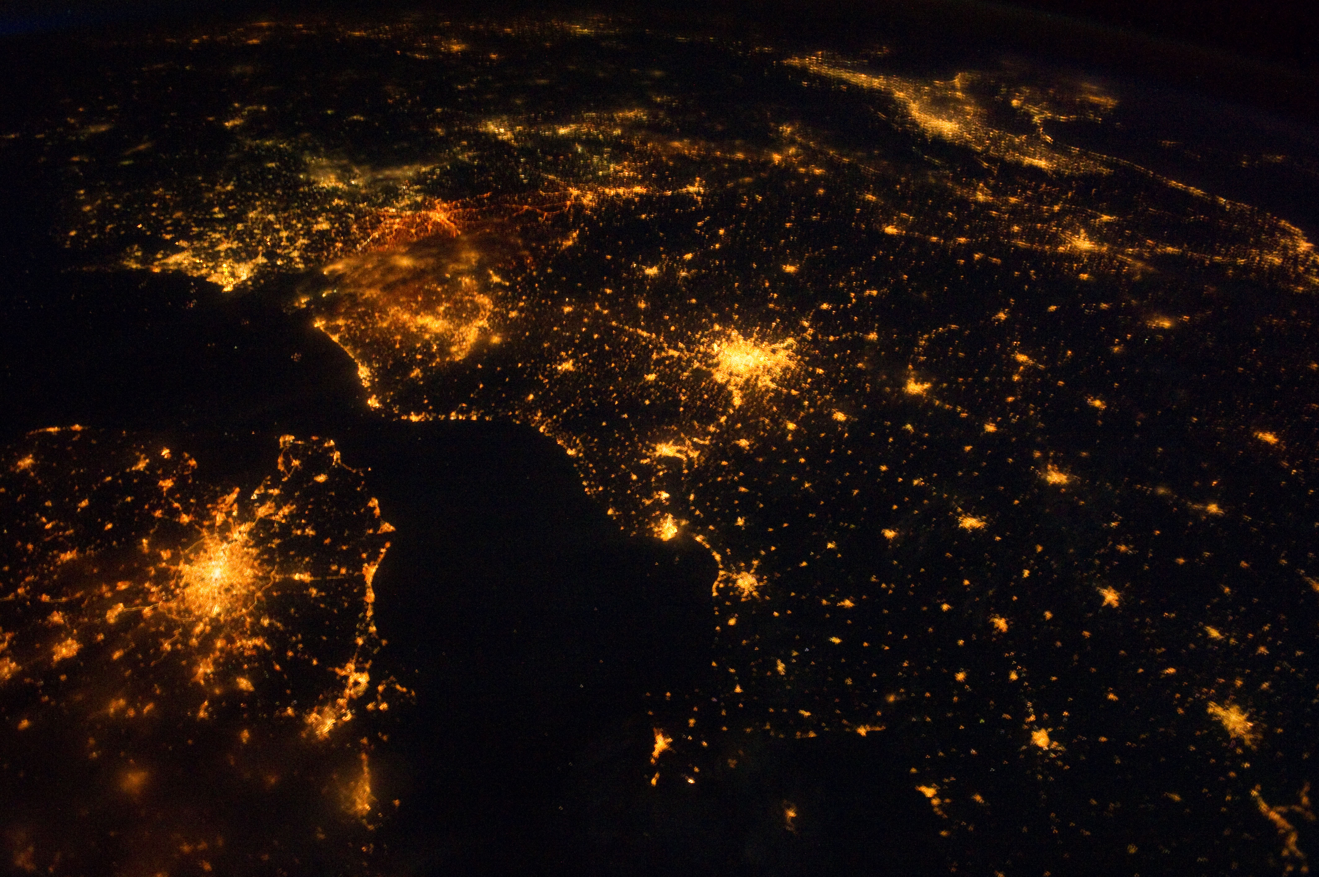 Several of the oldest cities of north-western Europe are highlighted in this astronaut photograph from just after midnight (00:25 Greenwich Mean Time) on August 10, 2011. While the landscape is dotted with clusters of lights from individual urban areas, the metropolitan areas of London, Paris, Brussels, and Amsterdam stand out due to their large light “footprints.” The metropolitan area of Milan is also visible at image upper right. This photograph from the International Space Station (ISS) was taken with a short camera lens, providing the large field of view. To give a sense of scale, the centers of the London and Paris metropolitan areas are approximately 340 kilometres from each other. The image is also oblique—taken looking outwards at an angle from the ISS, which tends to foreshorten the image—making the distance between Paris and Milan (640 kilometres) appear less than that of Paris to London. In contrast to the land surface defined by the city lights, the English Channel presents a uniform dark appearance. Similarly, the Alps near Milan are also largely devoid of lights. While much of the atmosphere was clear at the time the image was taken, the lights of Brussels are dimmed by thin cloud cover.